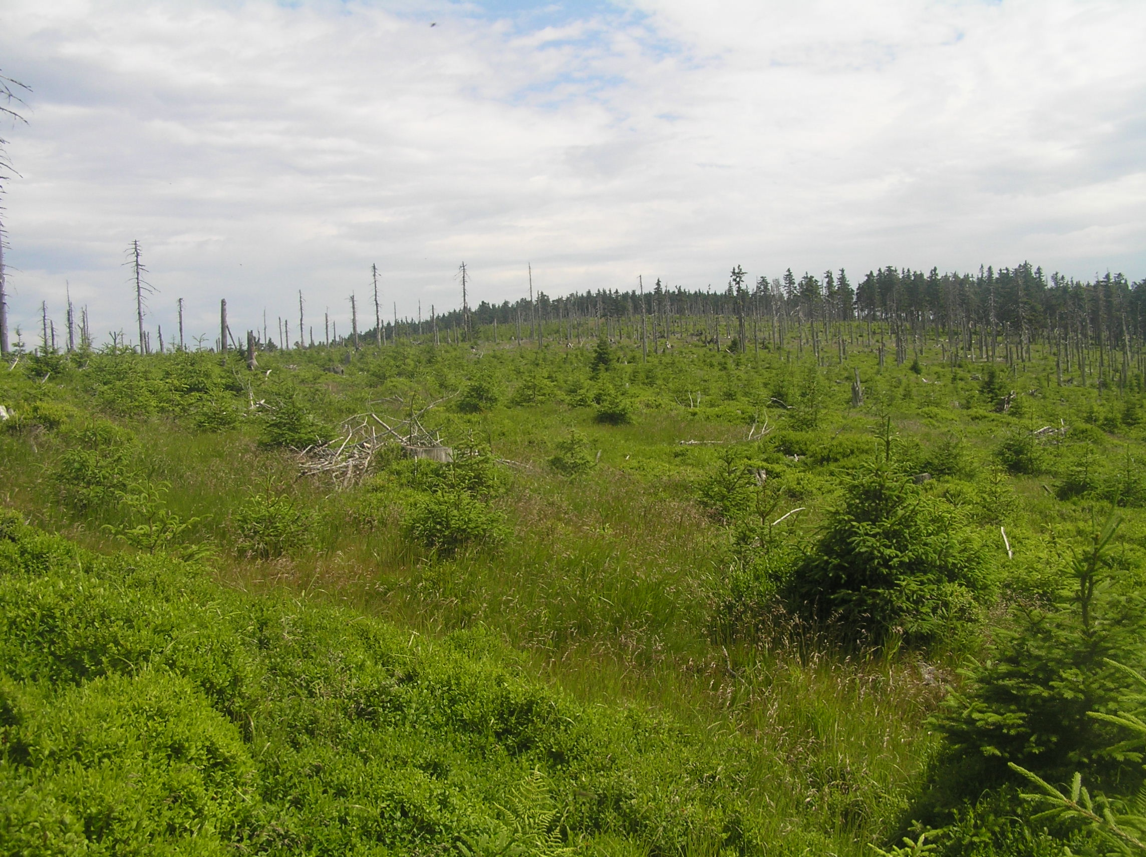 Souš, Králický Sněžník Mountains, Czech Republic